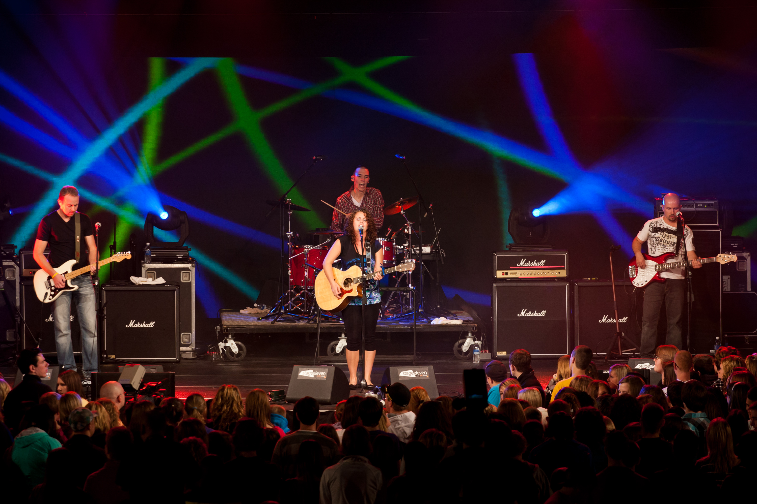 Kellie Loder performing at YC (Youth Conference) 2010 in Gander, Newfoundland